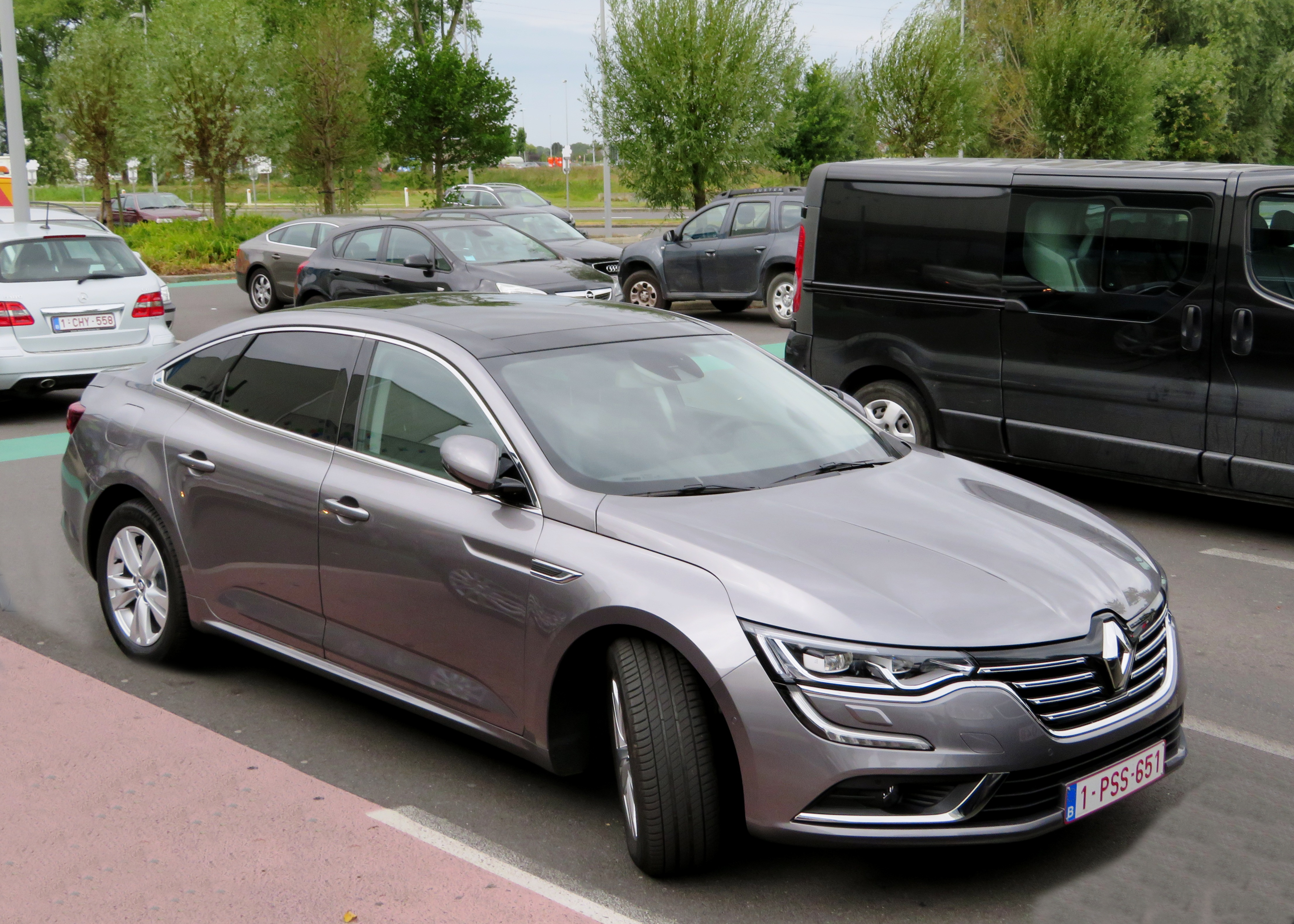 Renault Talisman in Brugge